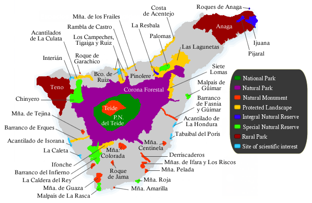 Derived from Spanish version, translating legend (aproximately)